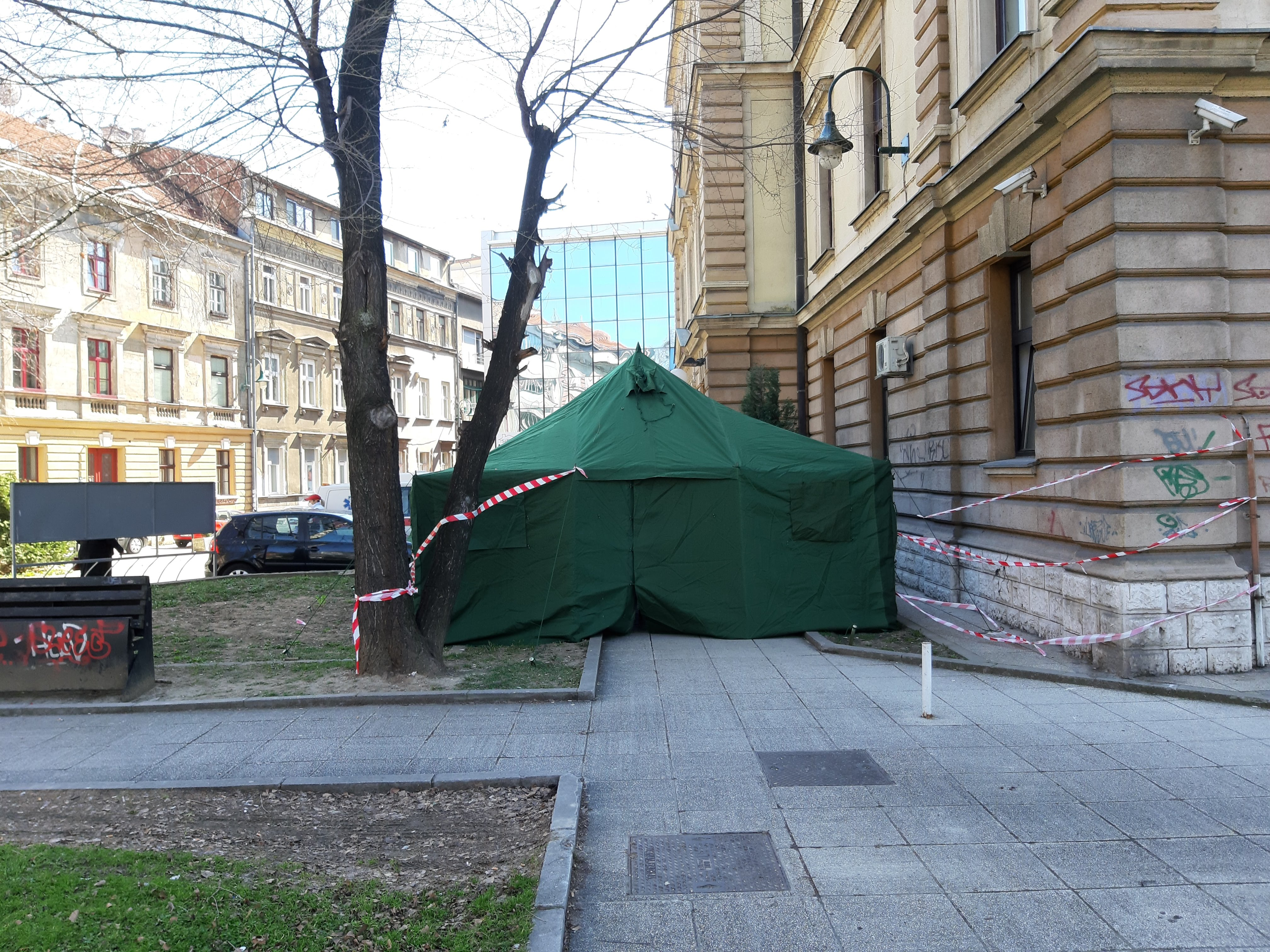 Triage tent placed in Sarajevo during COVID-19 pandemic in Bosnia and Herzegovina